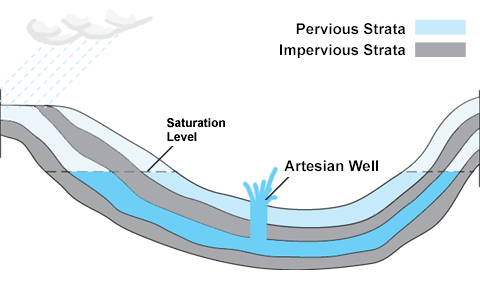 Diagram of an Artesian Well